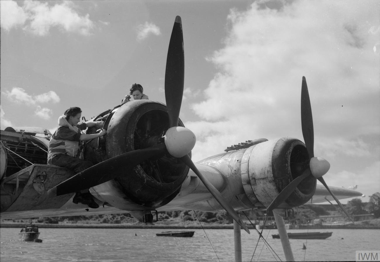 Royal Air Force Coastal Command, 1939-1945. WAAF engine mechanics servicing a Bristol Pegasus engine of a Short Sunderland.